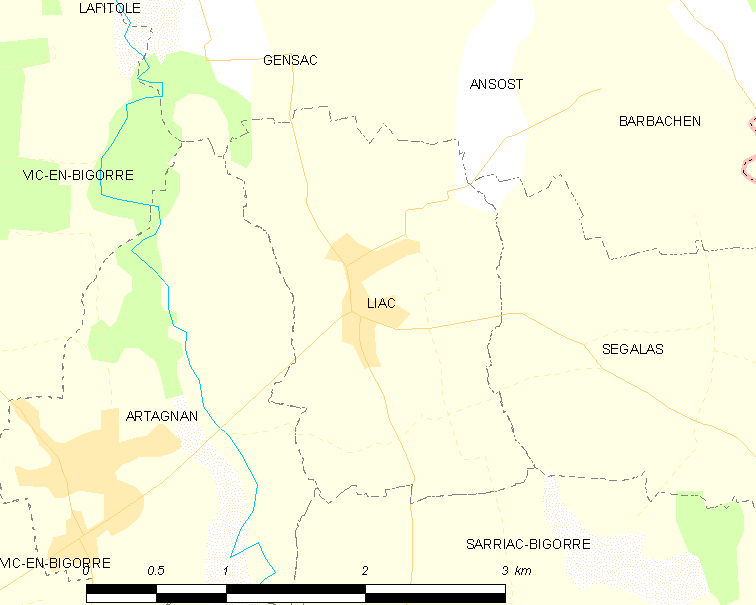 Map of French municipality